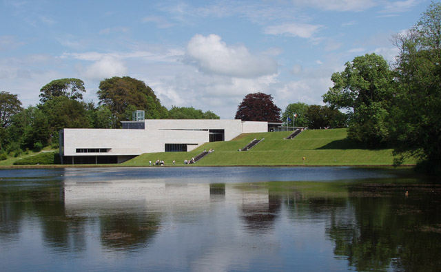 Museum of Country Life The stunning exhibition gallery, opened in 2001, seen from the gardens by the artificial lake.